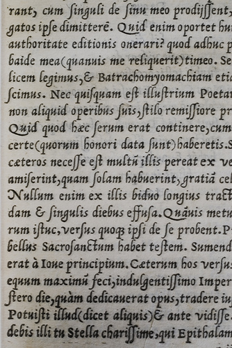 Page, printed by Simon de Colines (Paris)